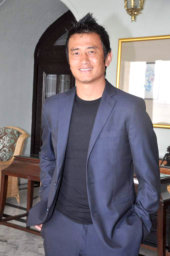 Bhaichung Bhutia at the NDTV Marks for Sports event